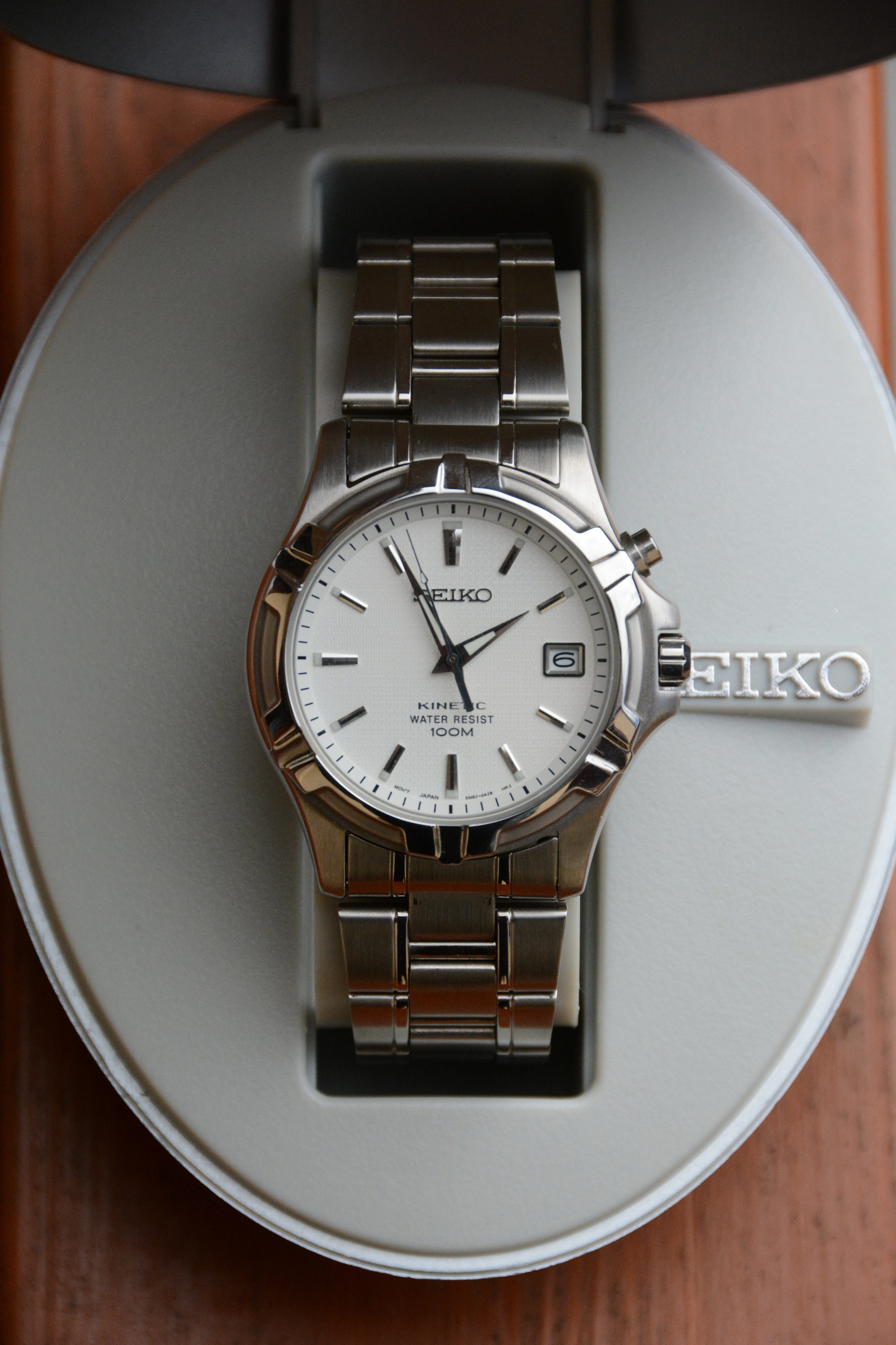 Seiko Kinetic 5M62-0A20, 2002